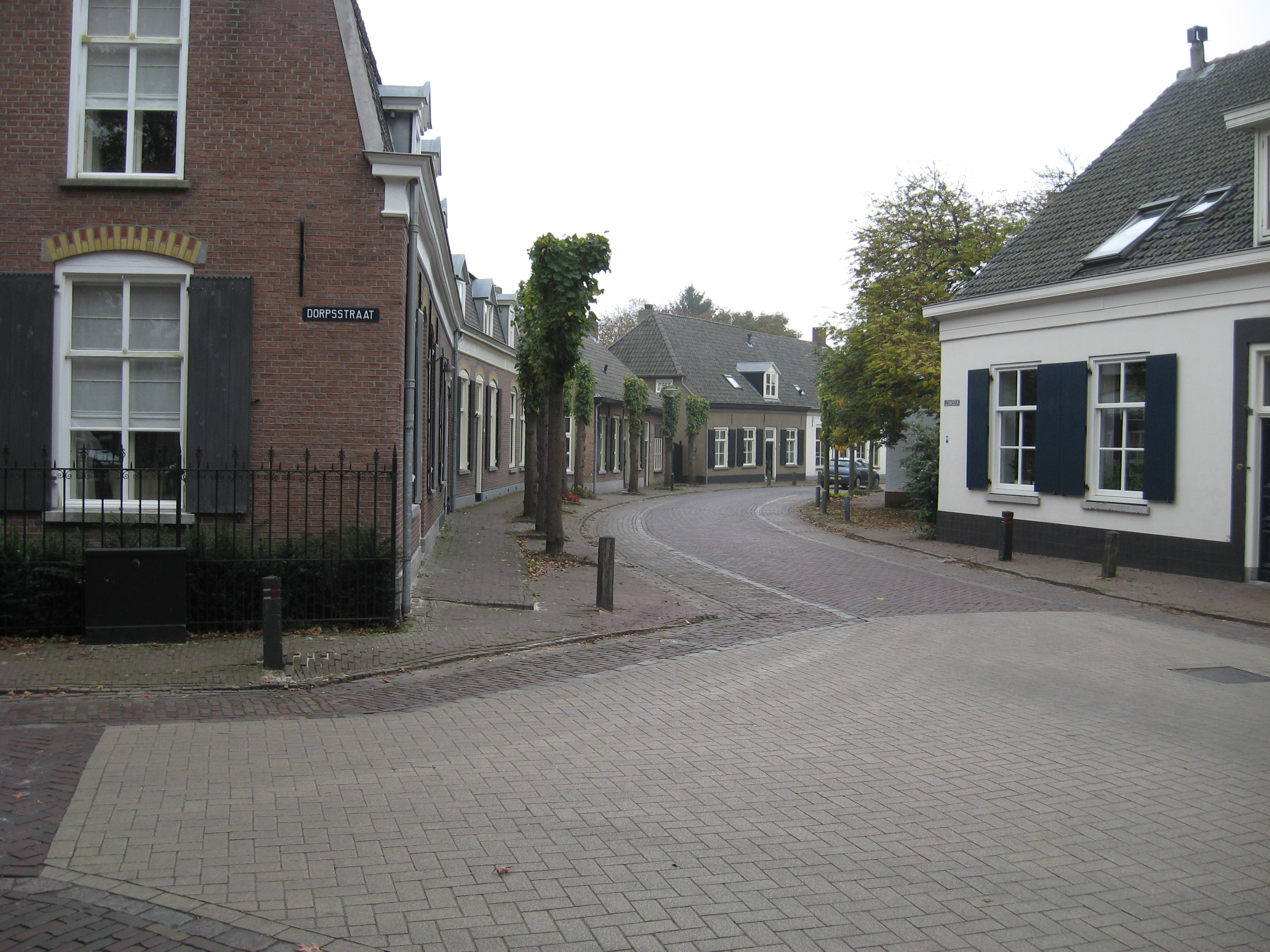 Leunisdijk, hoek Dorpsstraat, Esch (Haaren)